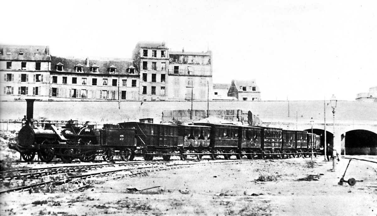 Train of Napoléon III to Avon.